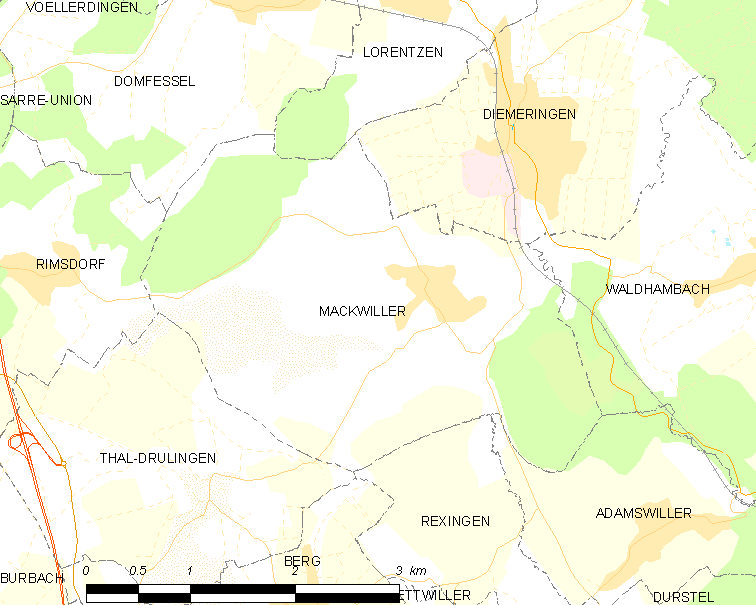 Map of French municipality